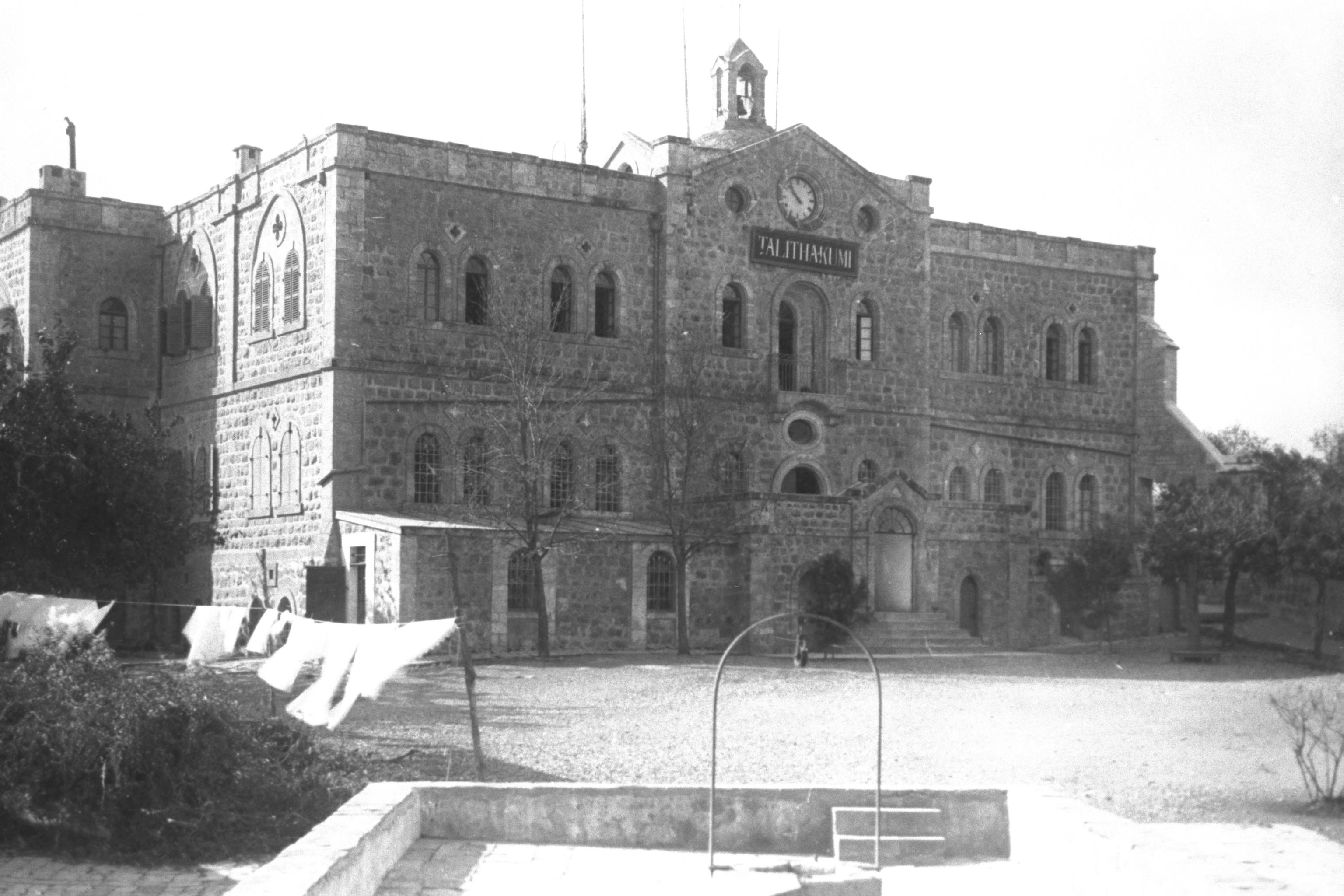 THE GERMAN GIRLS SCHOOL, TALITHAKUMI, IN THE OTTOMAN ERA. SEVERAL FRAGMENTS FROM THE BUILDING ARE NOW IN THE MASHBIR PLAZA ON KING GEORGE STREET IN JERUSALEM. צילום נדיר של בית הספר הגרמני לבנות " טליתא קומי "- TALITHAKUMI אשר נהרס ומשרידיו נשארו אלמנטים בודדים ליד רחבת המשביר, ברחוב קינג ג'ורג' בירושלים.